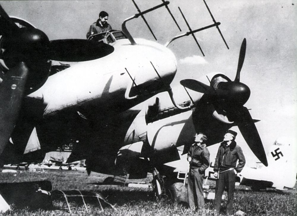 American personnel examine a Ju 88 G-6 captured at Wunstorf airfield near Hanover.